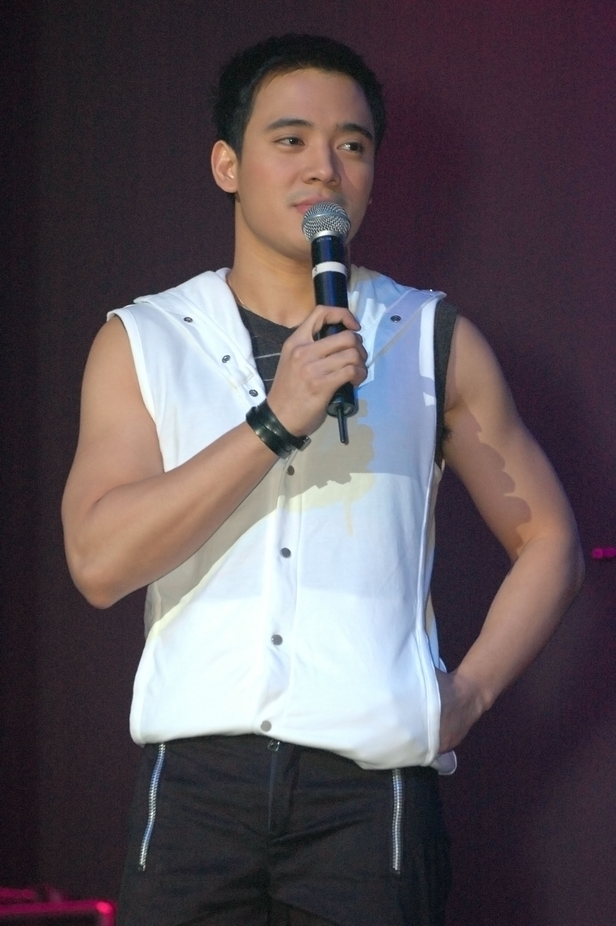 Filipino singer Erik Santos during a concert in Chicago, 2008.Erik Santos Chicago Concert 2008 (32)